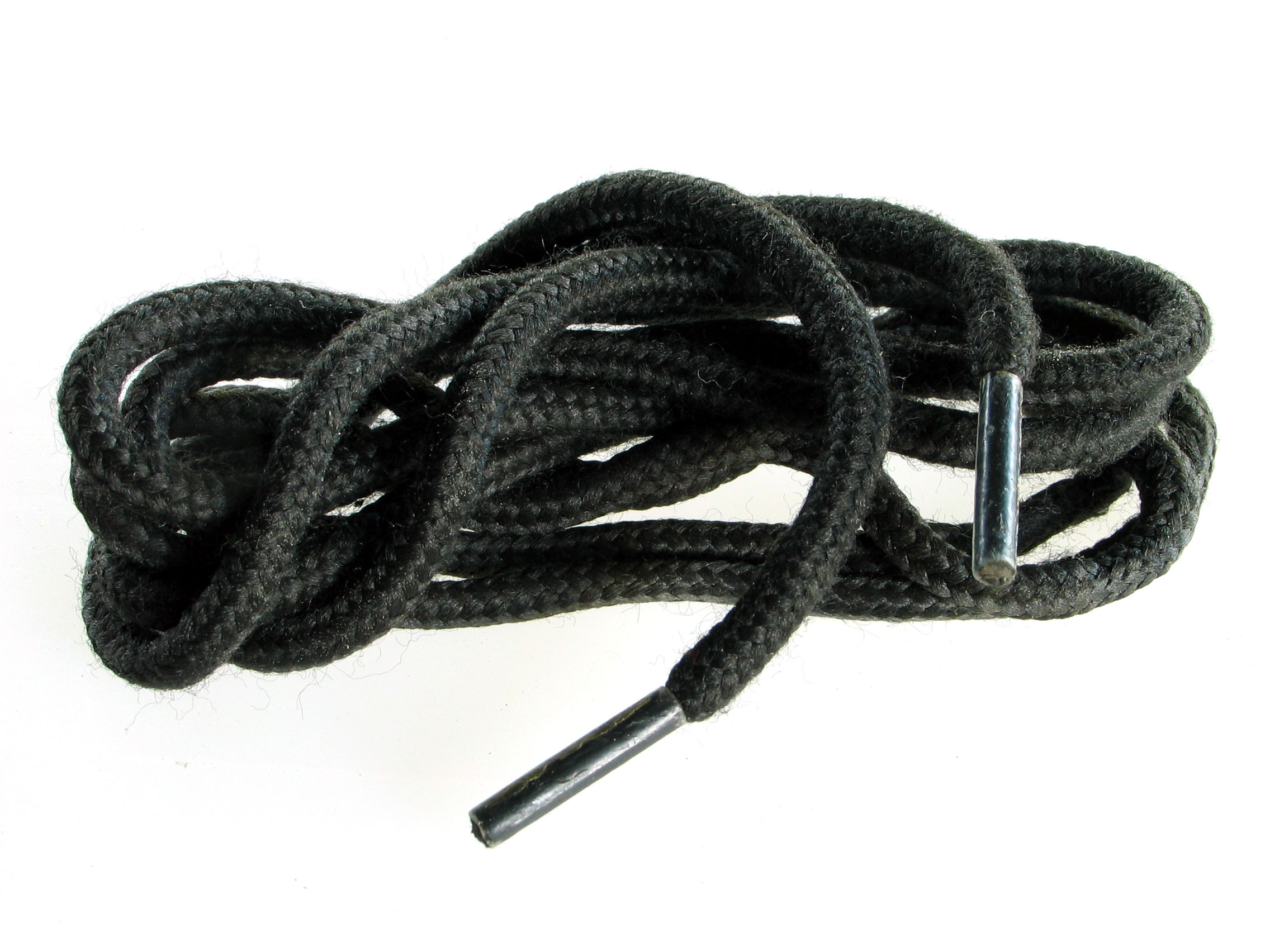 Shoelaces, photo taken in Sweden